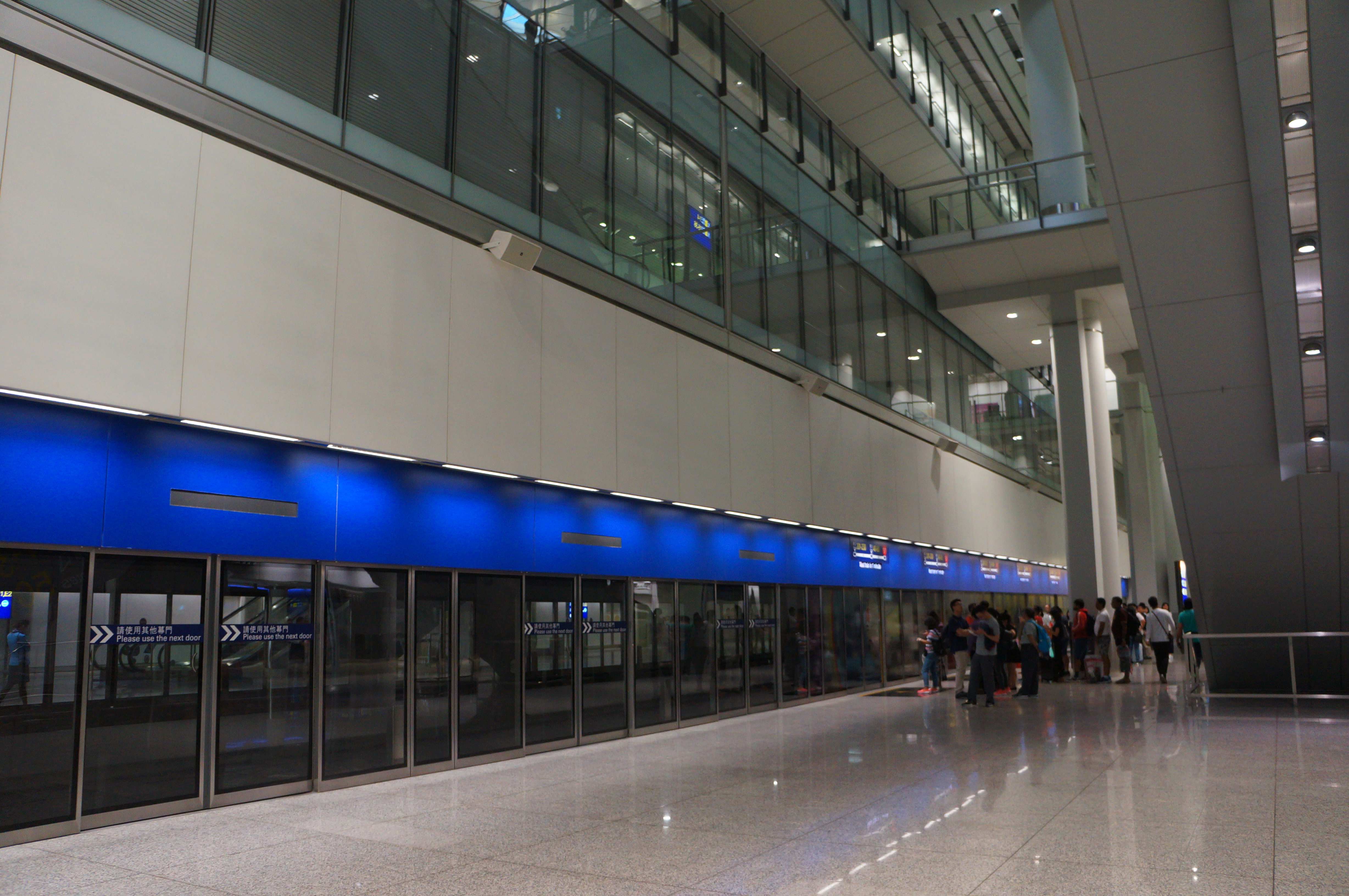 201610 Platform of HKG-APM East Hall Station (Departure)